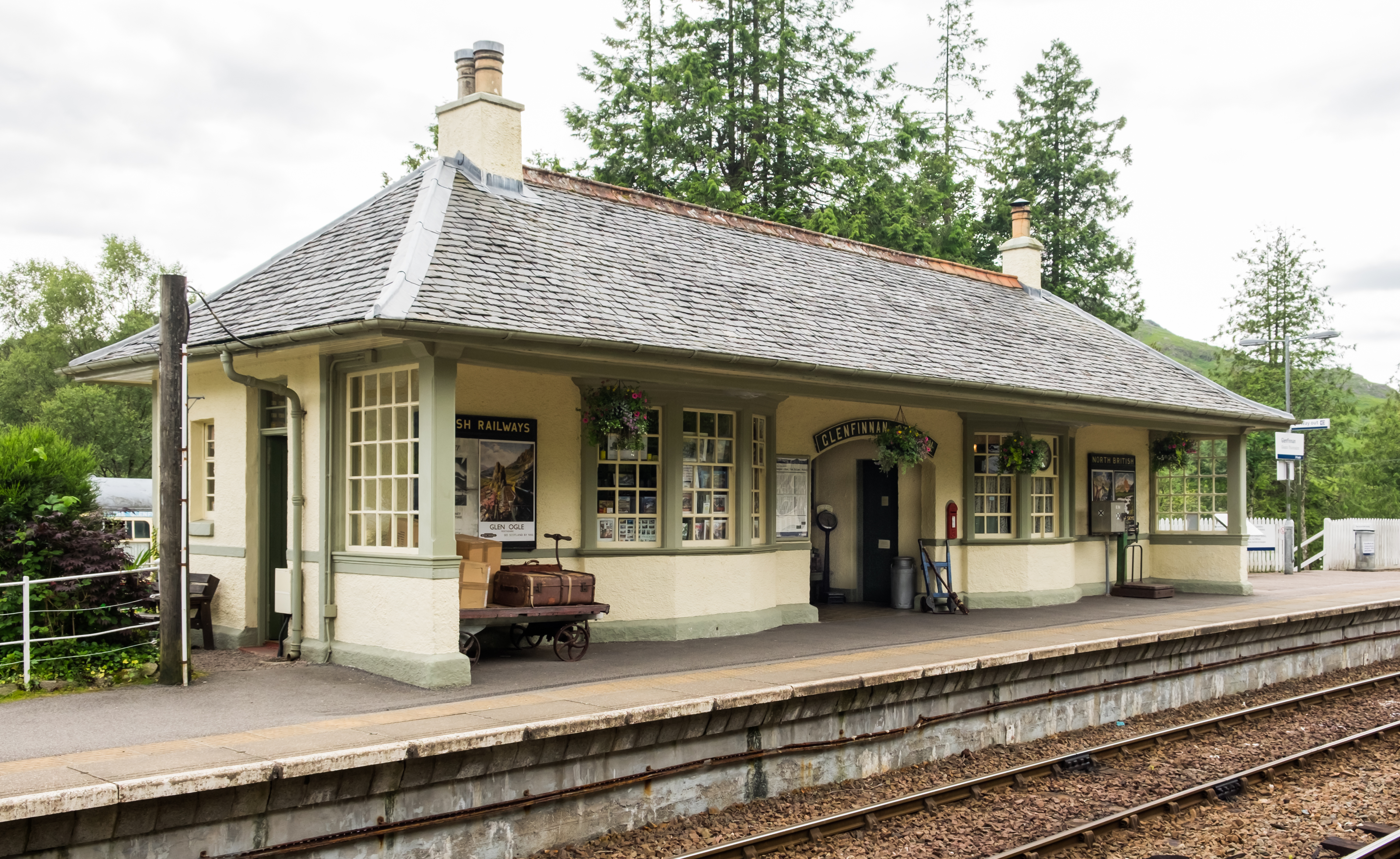 Glenfinnan railway station ticket office and waiting room. This Category B Listed Building in Scotland now houses part of the Glenfinnan Station Museum.